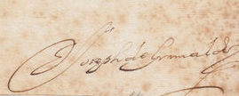 1715 signature of Prince Joseph Grimaldi of Monaco